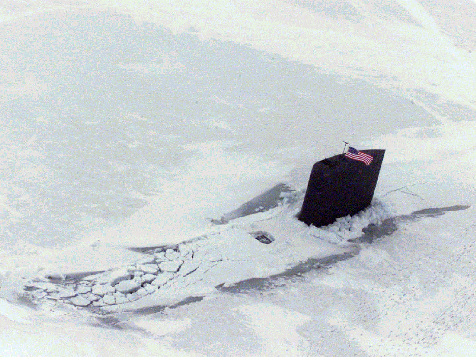 010605-N-0000X-004 North Pole (June 5, 2001) The Los Angeles-class fast attack submarine USS Scranton (SSN 756) breaks through the Arctic ice. For the first time in a third of a century, Scranton was one of two U.S. submarines to surface at the North Pole. Scranton and her crew broke through almost four feet of ice as a part of Atlantic Submarine Ice Exercise (LANTSUBICEX) 1-01, a three-ship exercise which demonstrated the U.S. Navy’s commitment to assure access to all international waters.